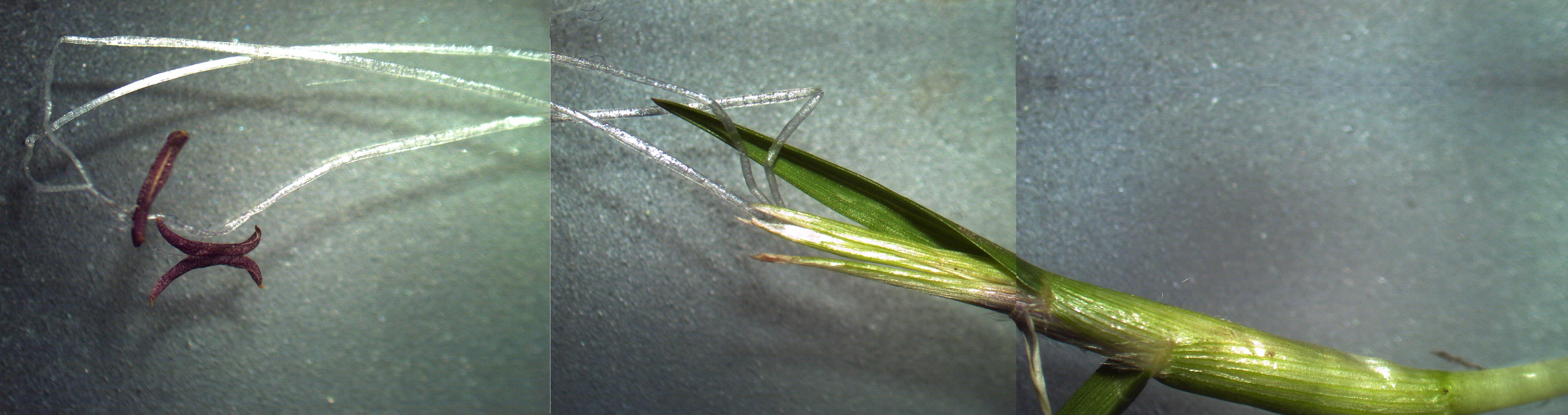 Kikuyu-grass Pennisetum clandestinum inforescense